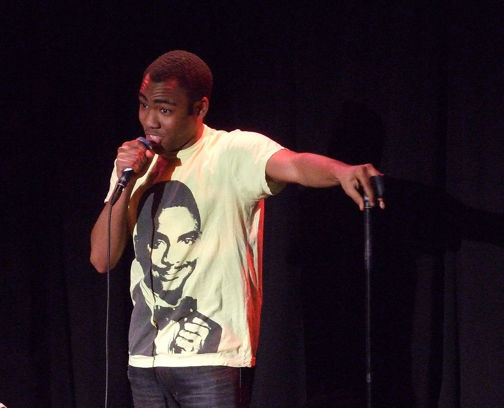 Donald Glover @ Shades of Black.